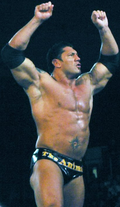 Dave Bautista at Smackdown!, in Cincinnati, Ohio, in 2006.